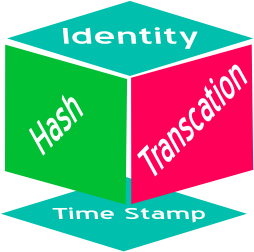 Block chain simple